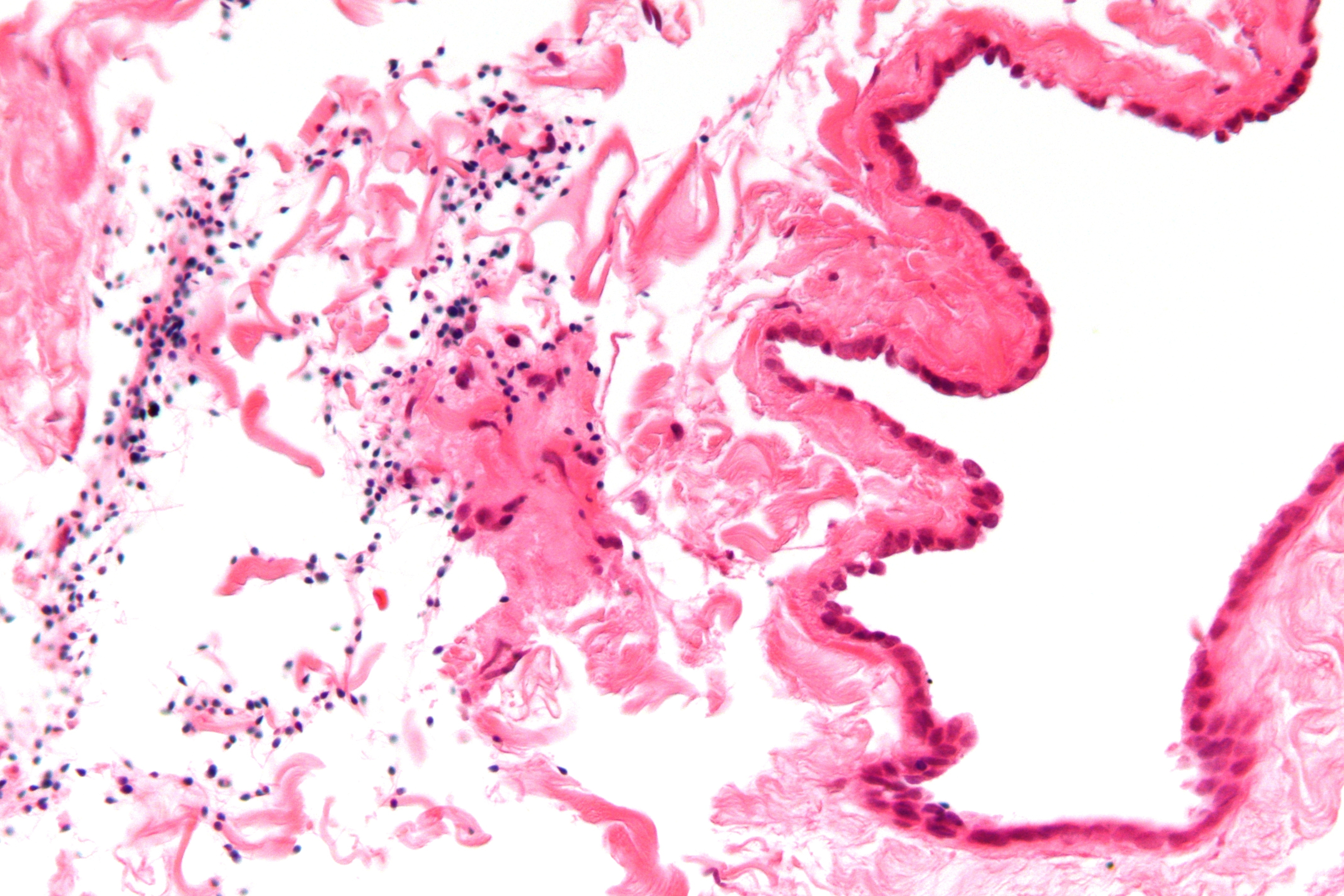 Very high magnification micrograph of a spermatocele. H&E stain. Related images Intermed. mag. High mag. Very high mag.